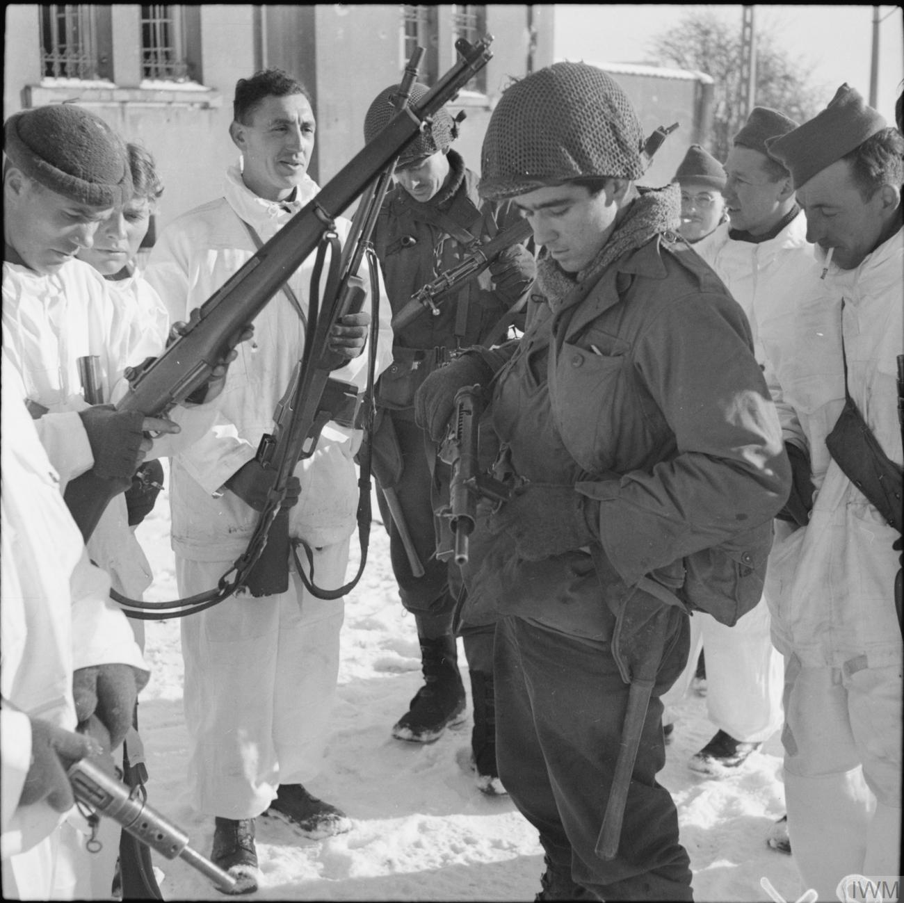 The British Army in North-west Europe 1944-45 Men from the 5th Queen's Own Cameron Highlanders, 51st Highland Division, wearing snow suits, inspect the weapons of two GIs from the American 87th Division during the link-up of the two Allied armies at Champlin in Belgium, 14 January 1945.